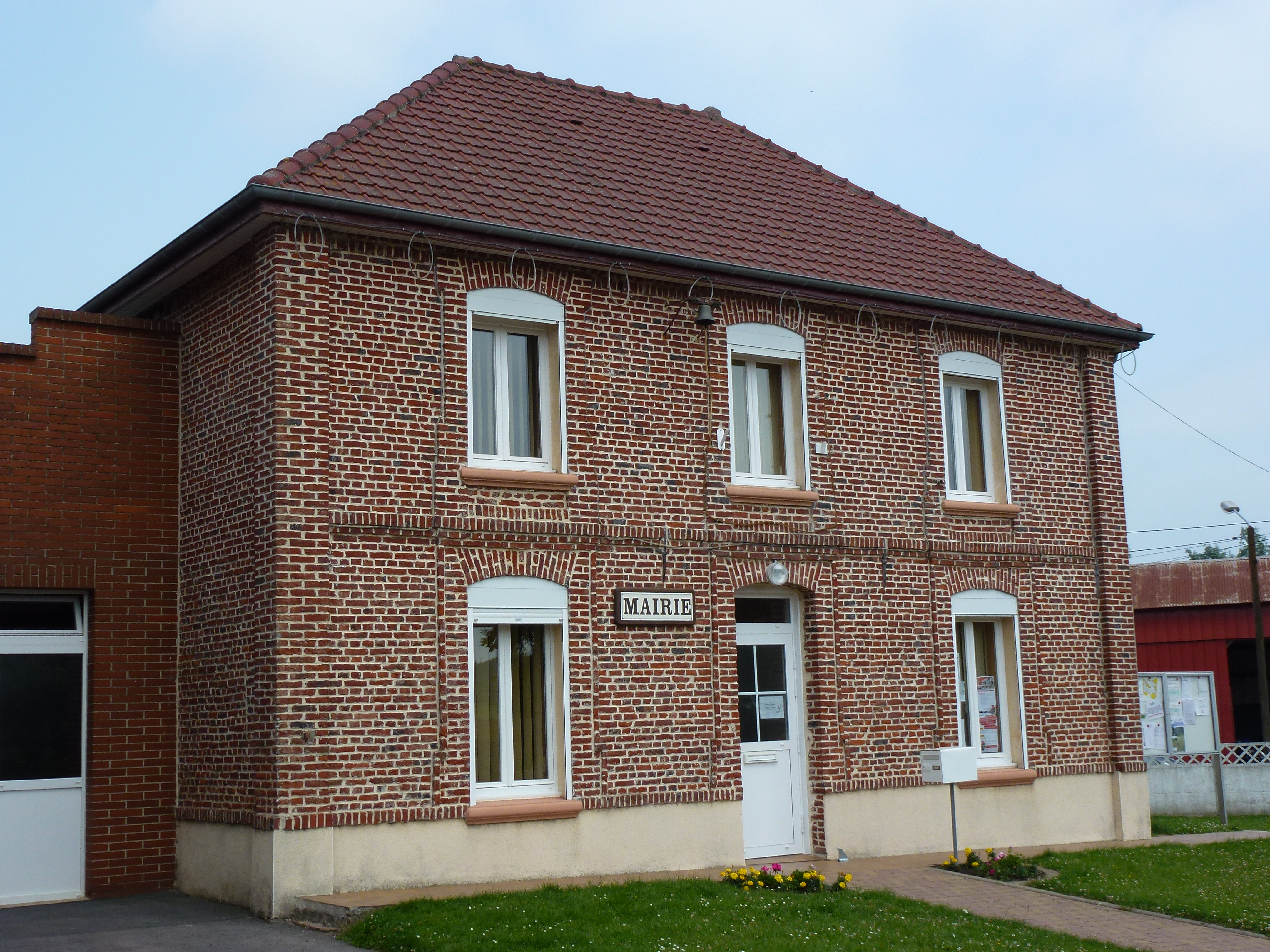 Aumerval (Pas-de-Calais, Fr) mairie